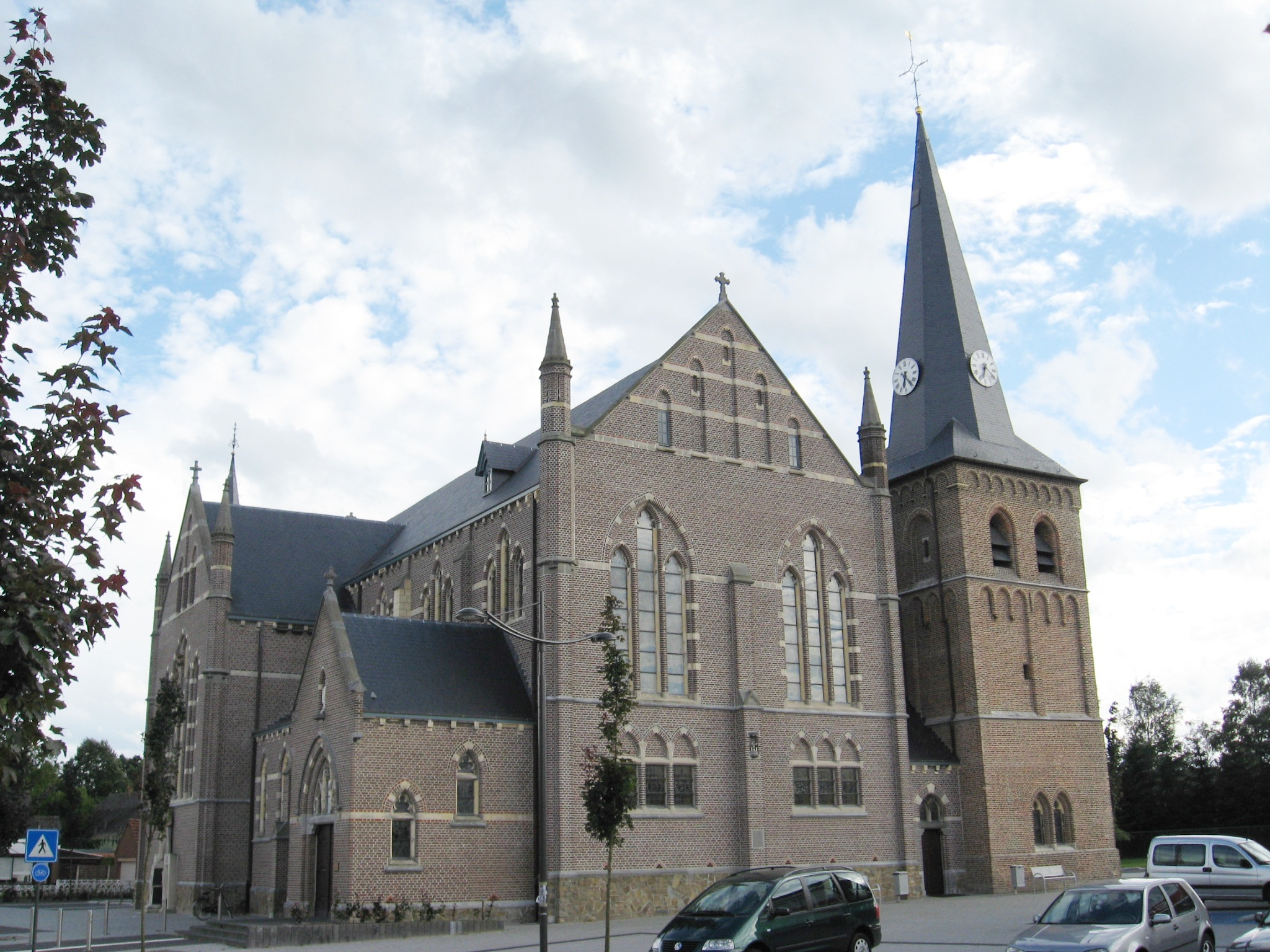 Church of the Saints Monulph and Gondulph in Kaulille, Bocholt, Limburg, Belgium